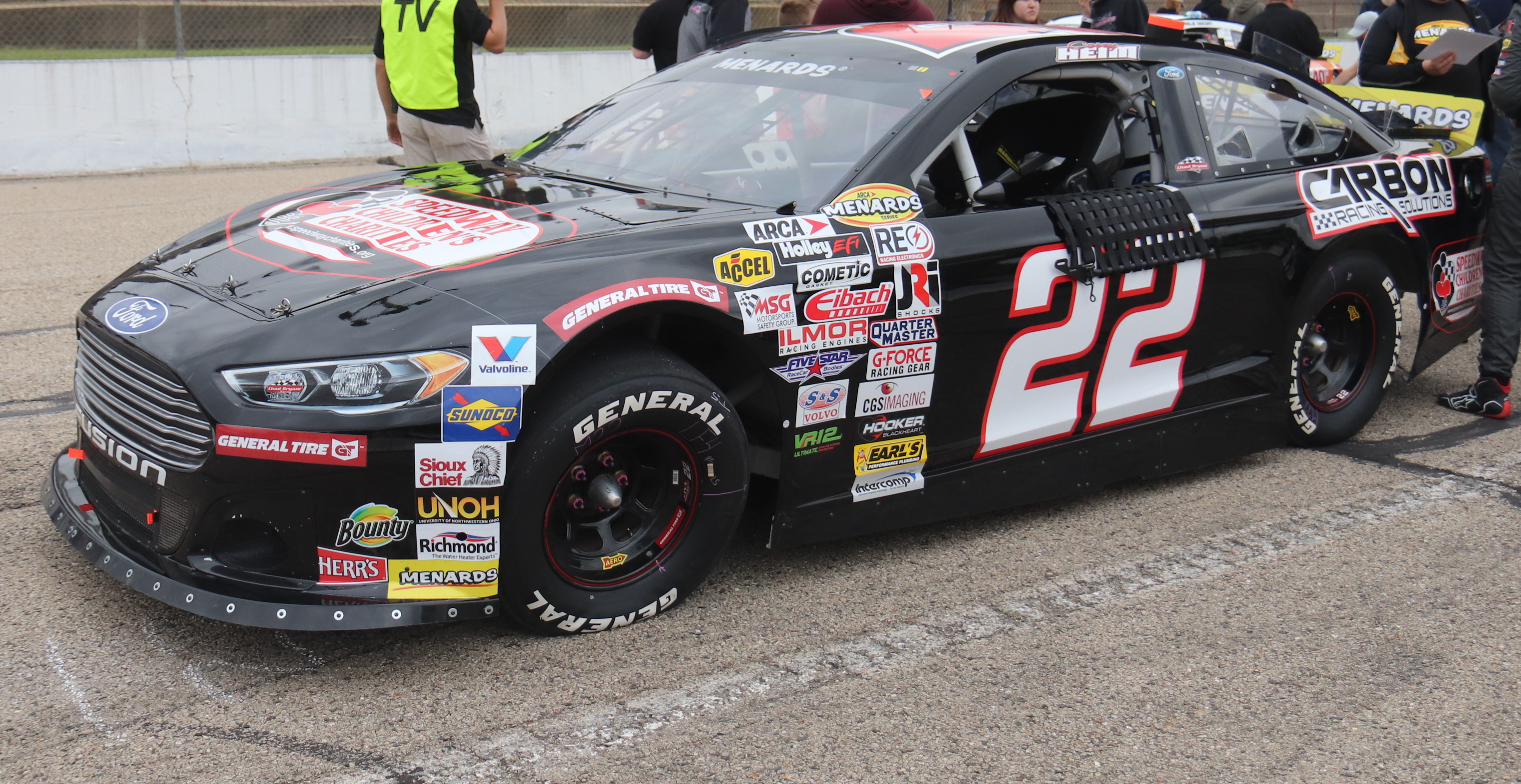 The #22 Ford Fusion ARCA car of Corey Heim at Madison.